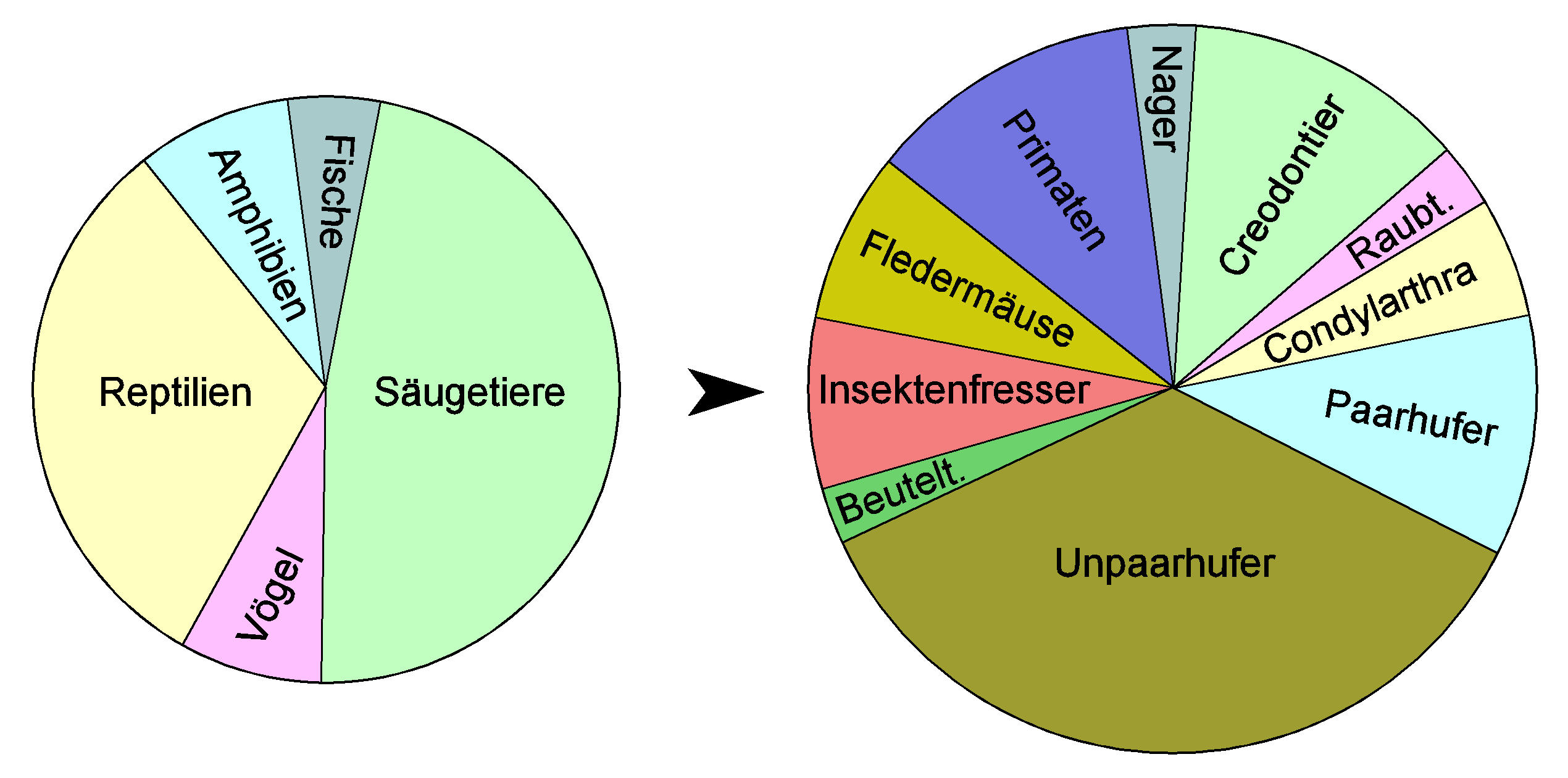 Composition of the vertebrate fauna of the Geiseltal fossil site (left: total, right: mammals only), after Krumbiegel et al. (1983)[1]